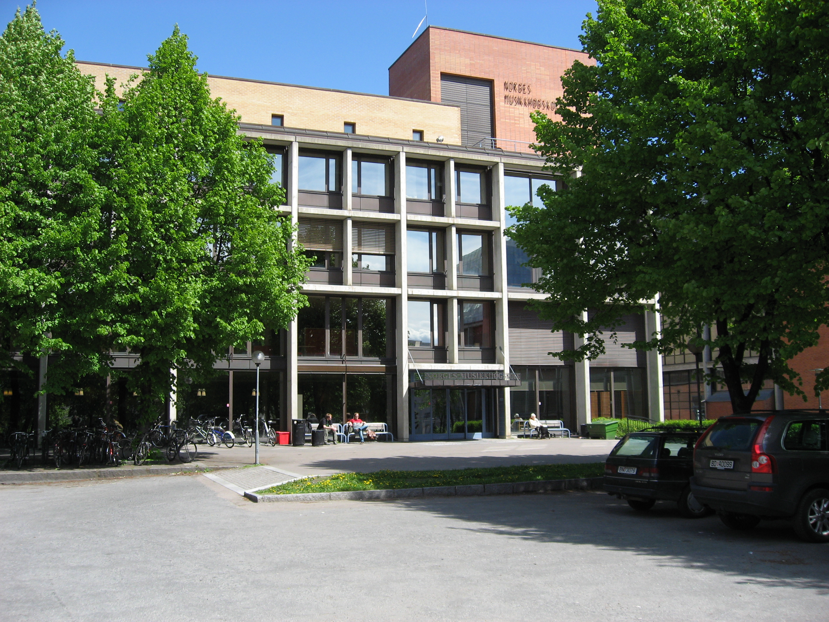 The building of "Norges musikkhøgskole" (The Norwegian Academy of Music)